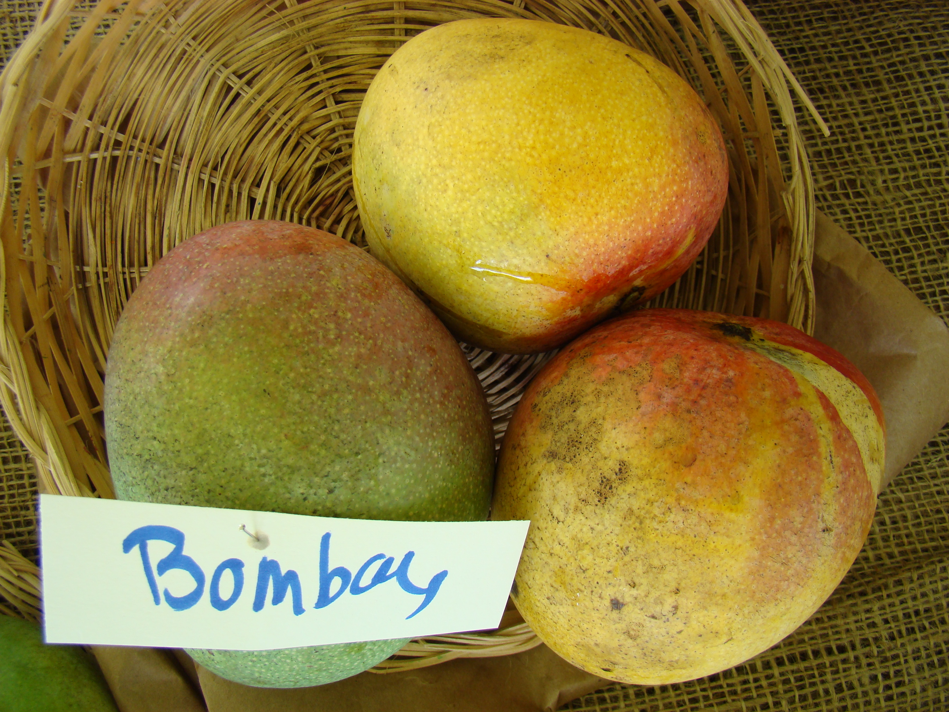 This is a photo of the display of Bombay mango at the Redland Summer Fruit Festival, Fruit & Spice Park, Homestead, Florida.